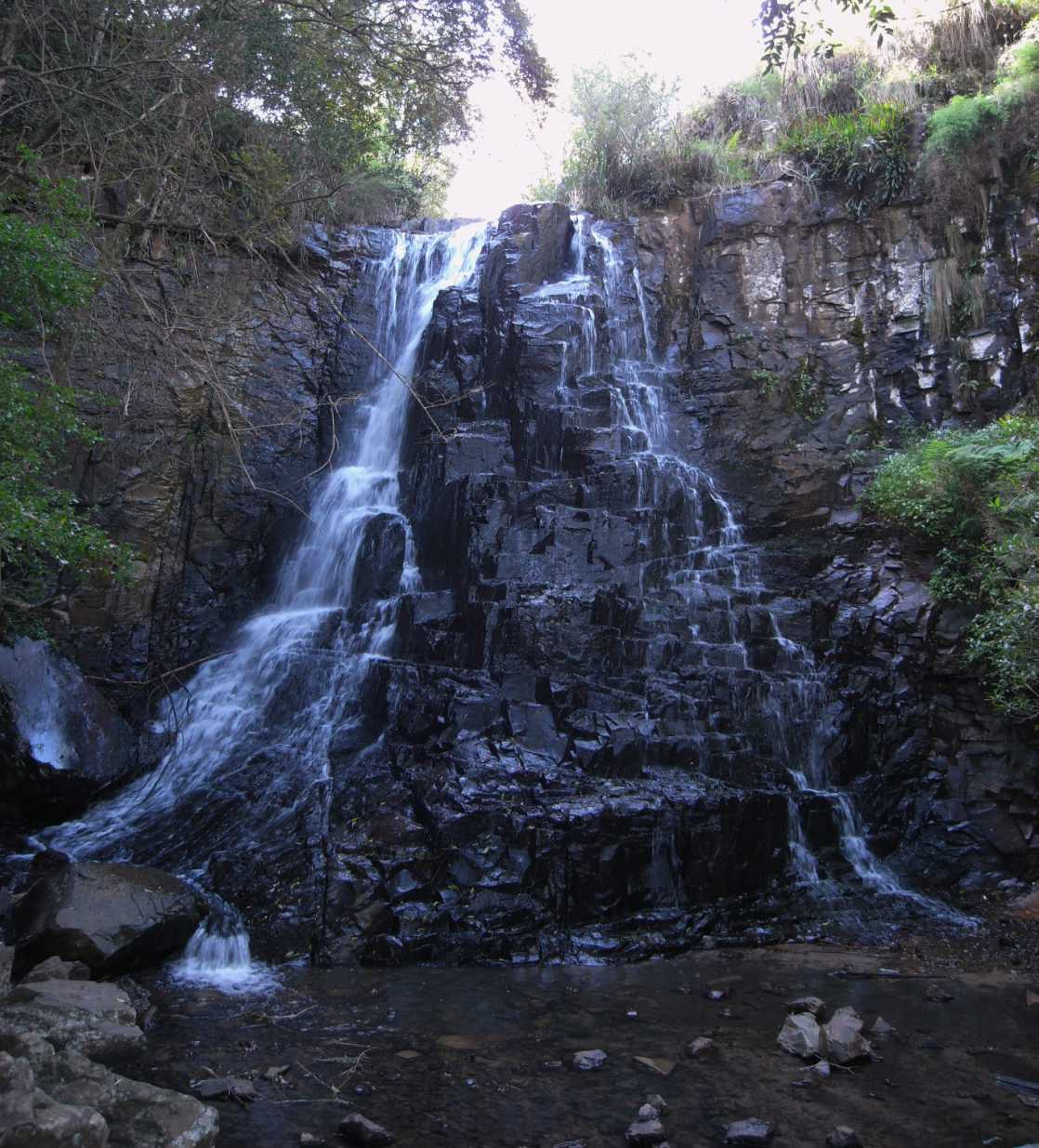 39 Steps Waterfall, in Hogsback, Amathole Mountains (Eastern Cape, RSA)